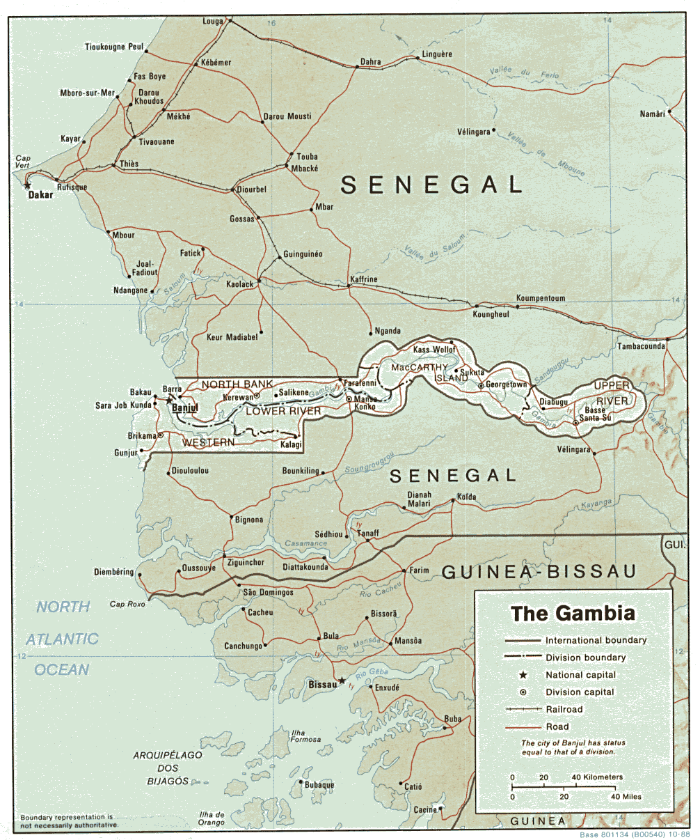 Shaded relief map of The Gambia.